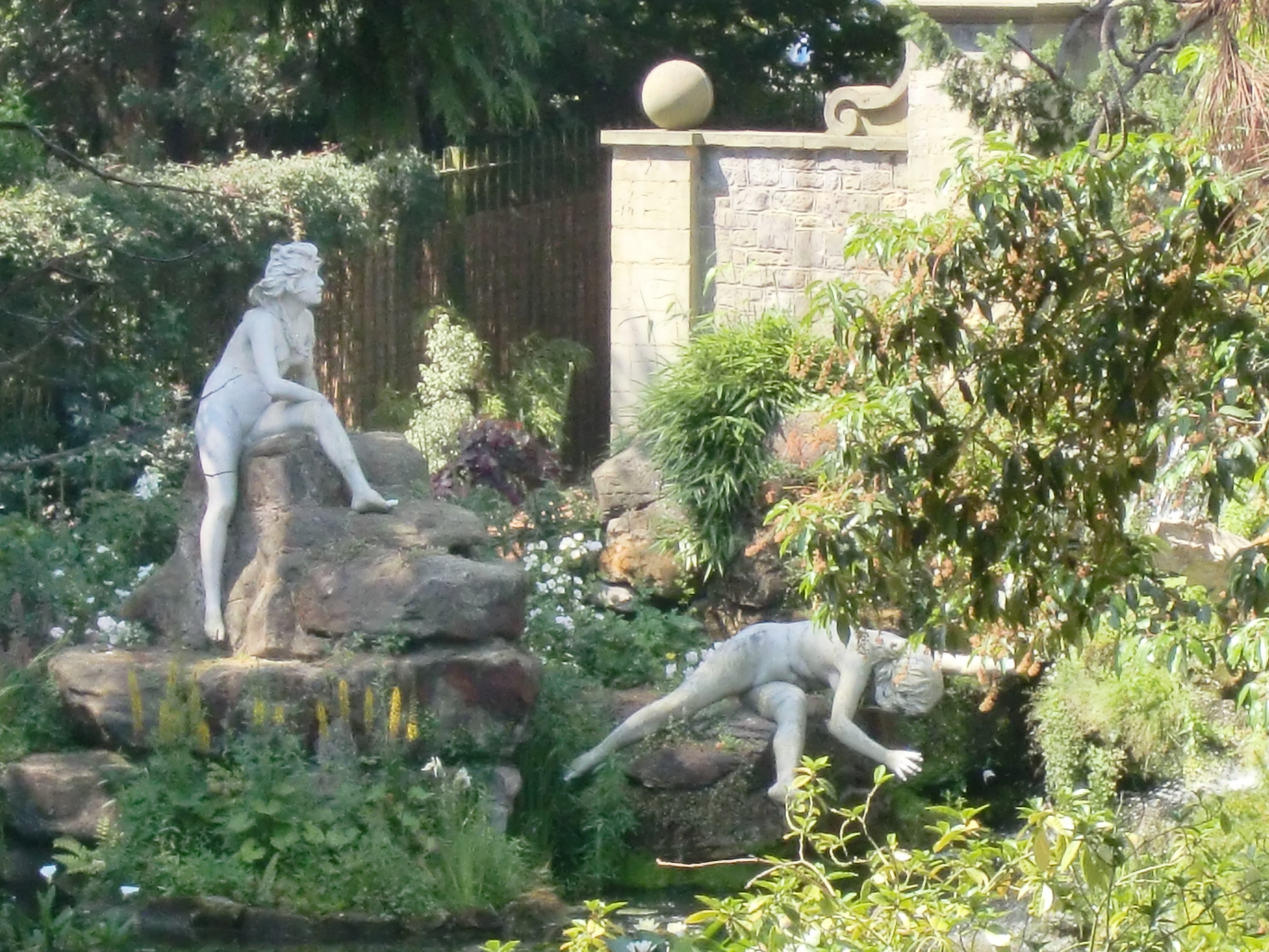 The naked Ladies of Twickenham, View of the two ladies on the right of the complex as seen from the bridge.